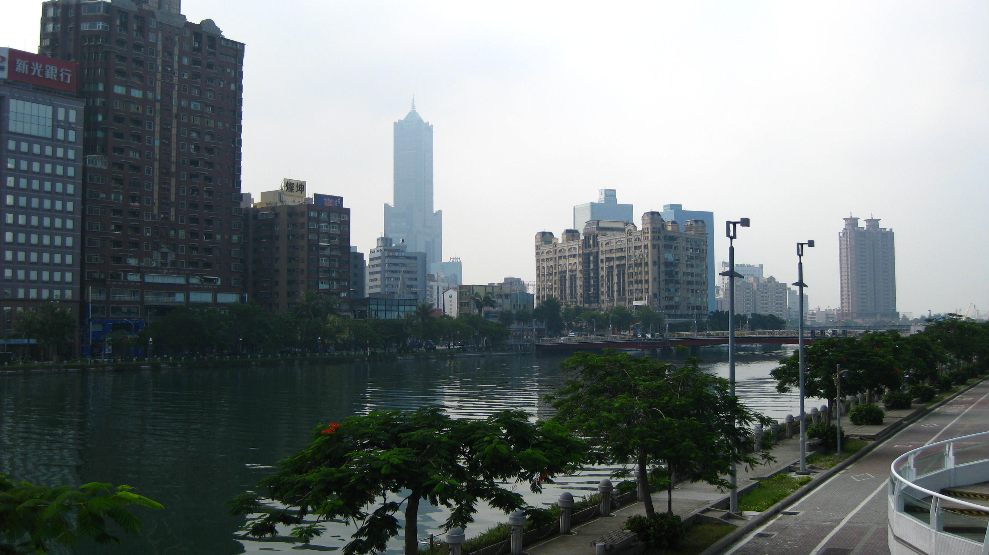 Love River, Kaohsiung, Taiwan